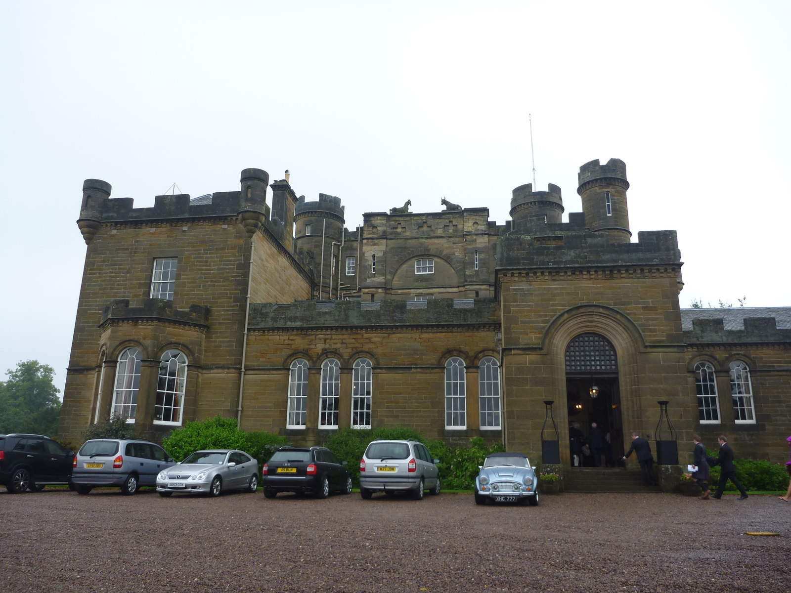 Midlothian Architecture : Oxenfoord Castle, near Pathhead